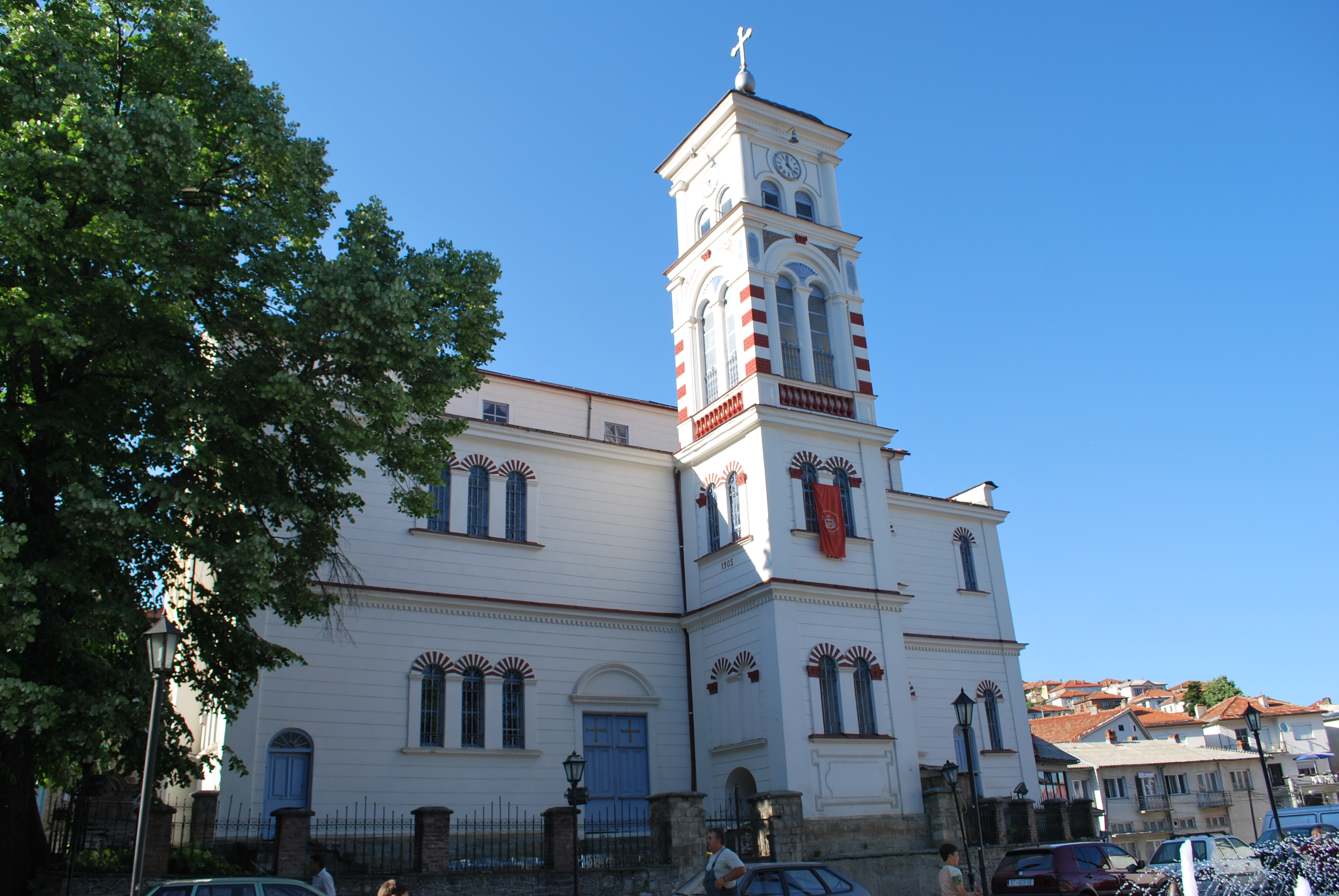 St. Nicholas Church in Kruševo, Macedonia